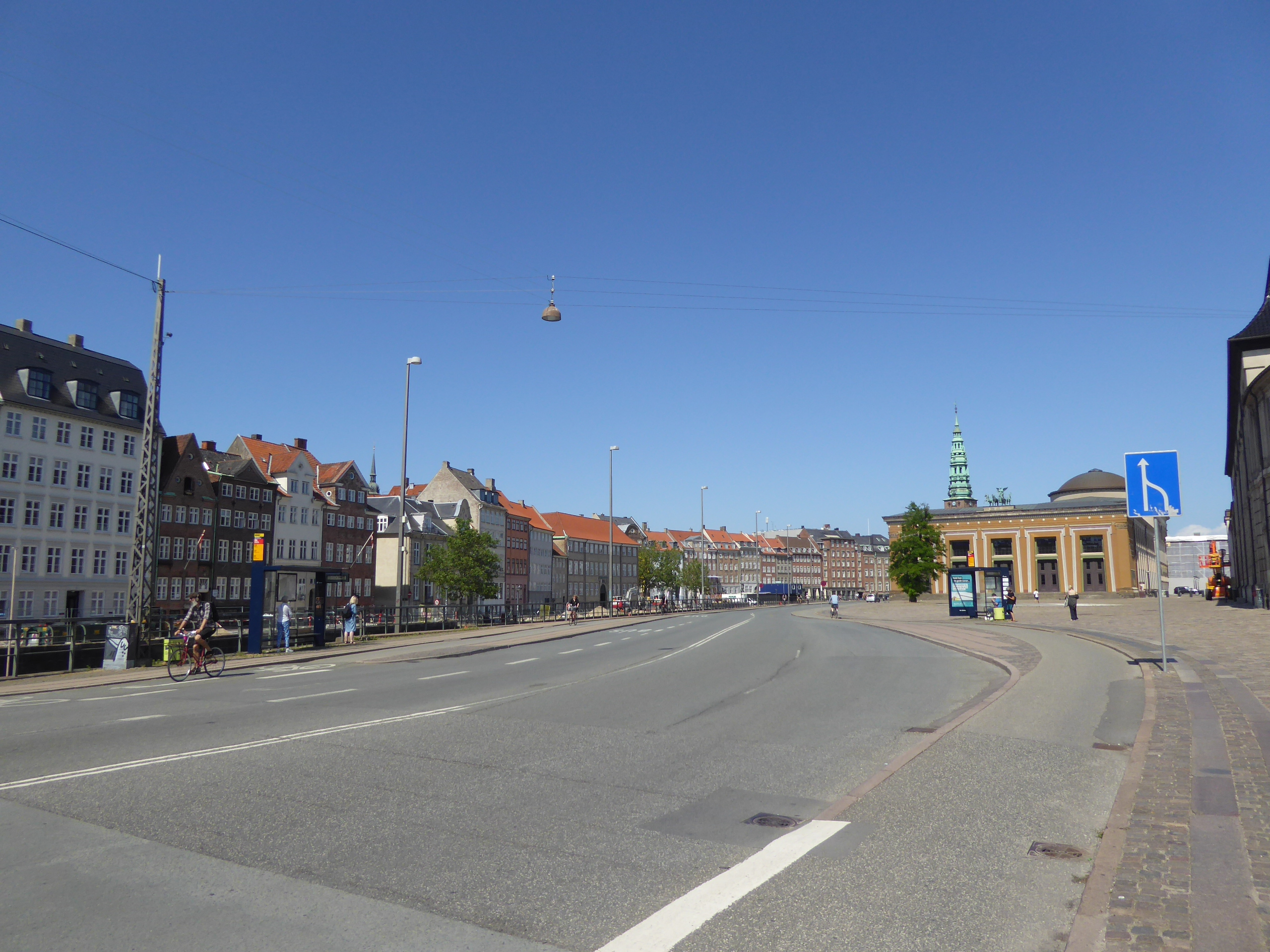 The street Vindebrogade on Slotsholmen in Copenhagen. There are usually a lot more traffic here but Torvegade was blocked due to due to urgent problems with the sewers so a lot of the traffic had to go another way.